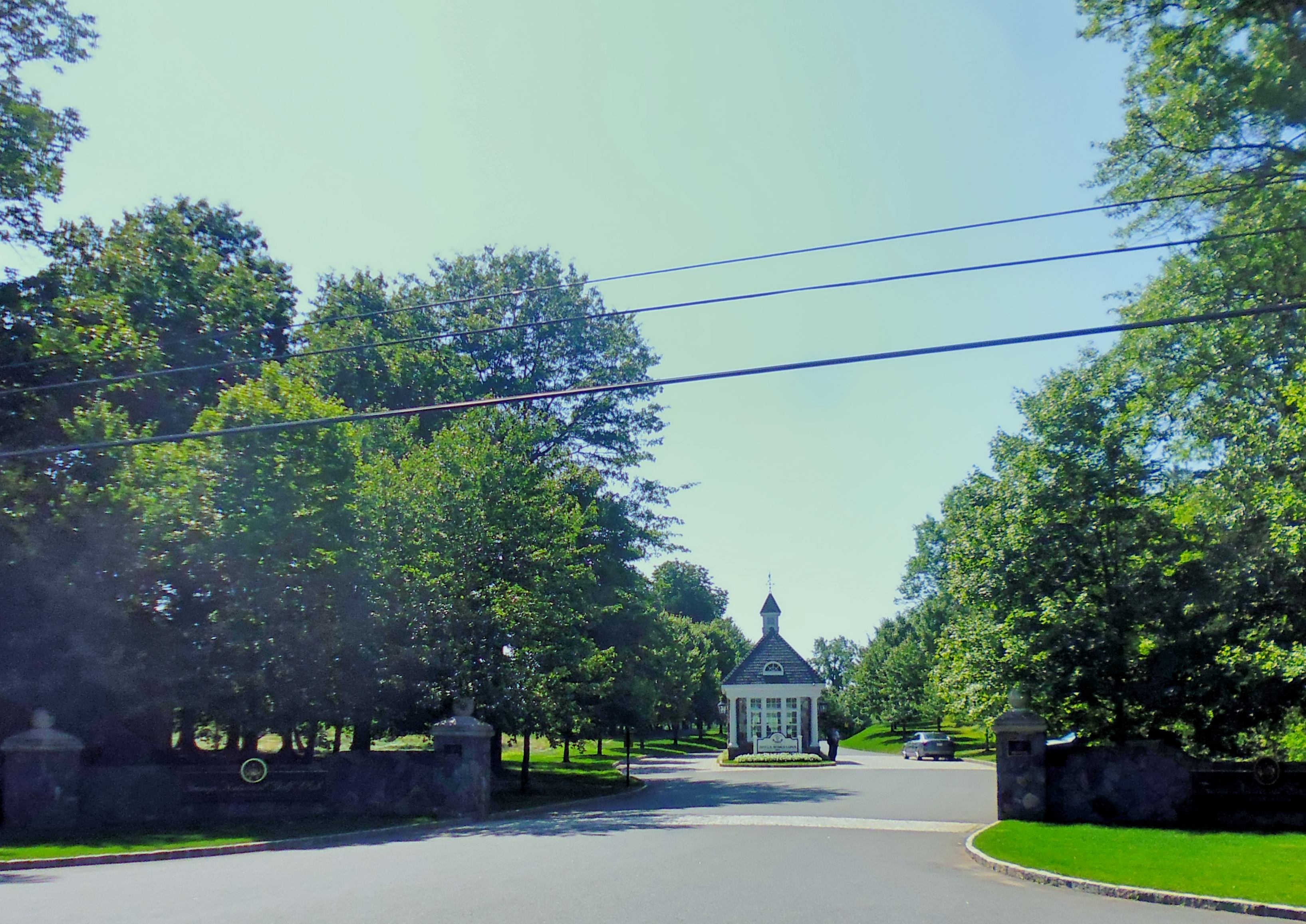 Entrance to Trump National Golf Club, Bedminster, NJ August 9, 2017